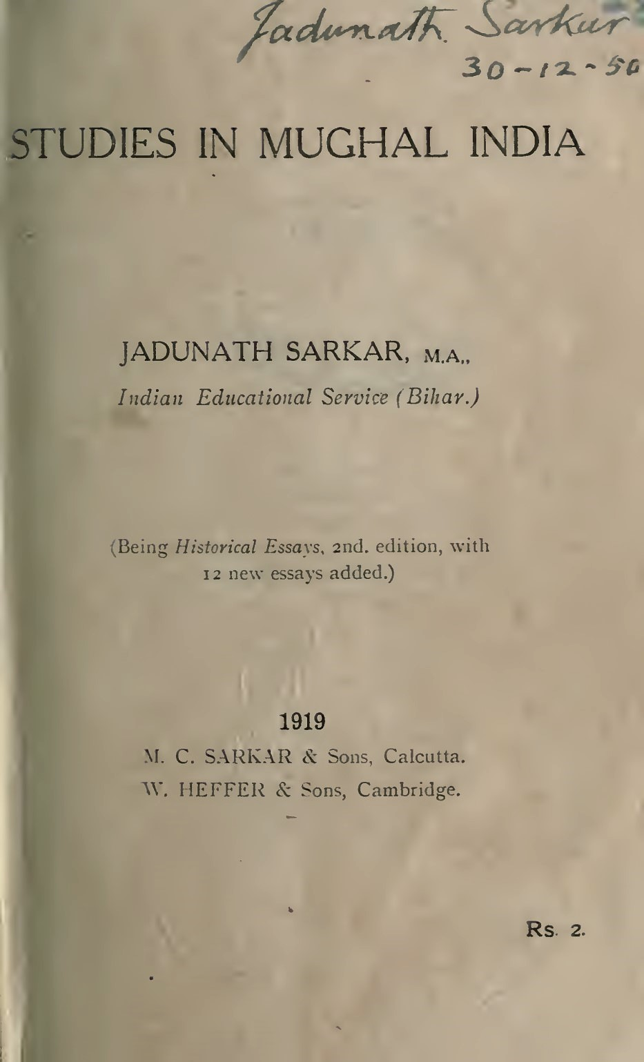 Signature of historian Jadunath Sarkar (1875-1958) on 30-12-1950 on his Studies in Mughal India